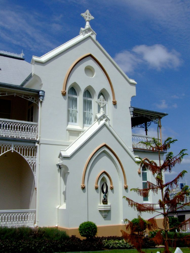 St Brigid's Convent, from W (2009)